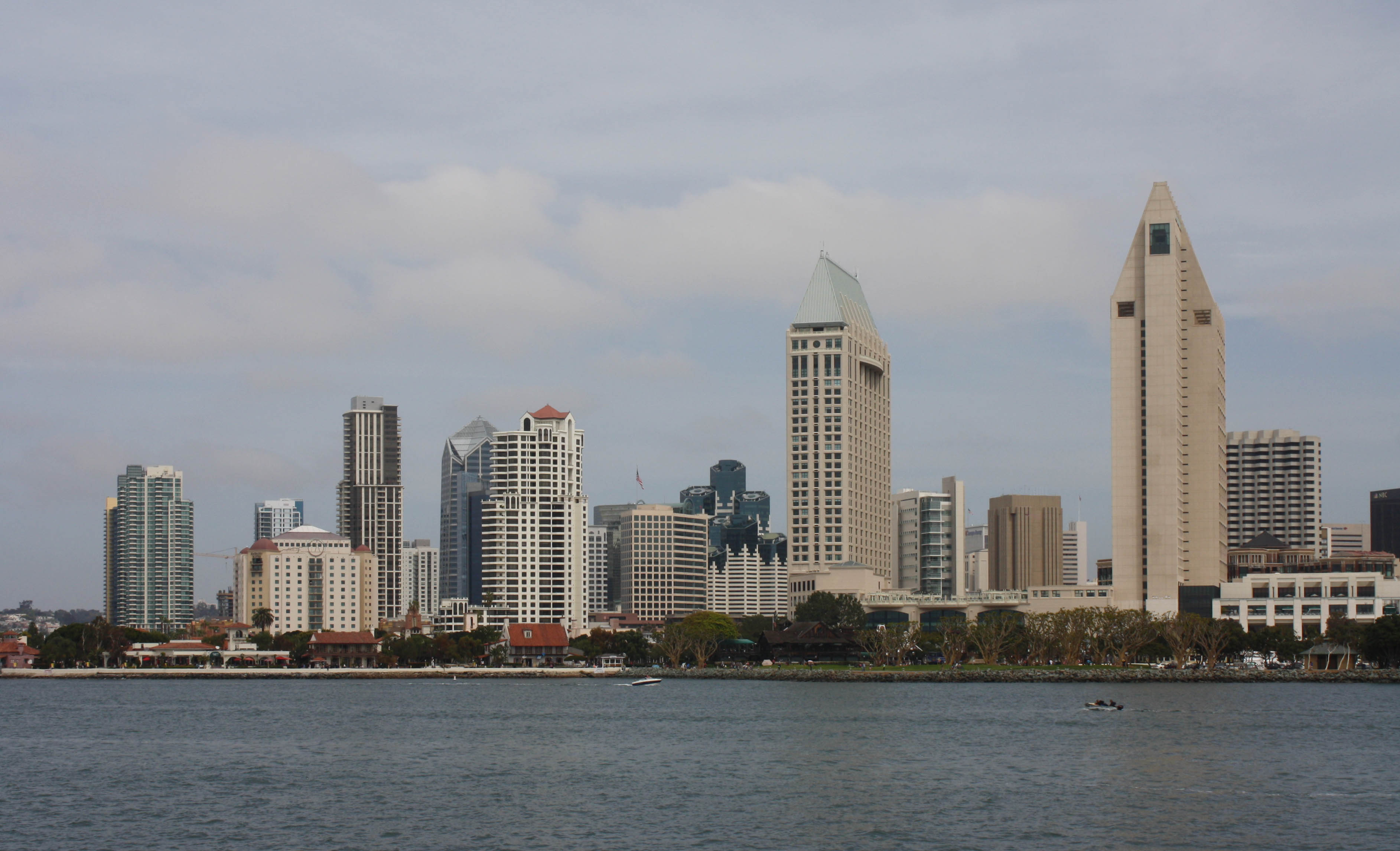 Downtown San Diego from the ferry to Coronado, California